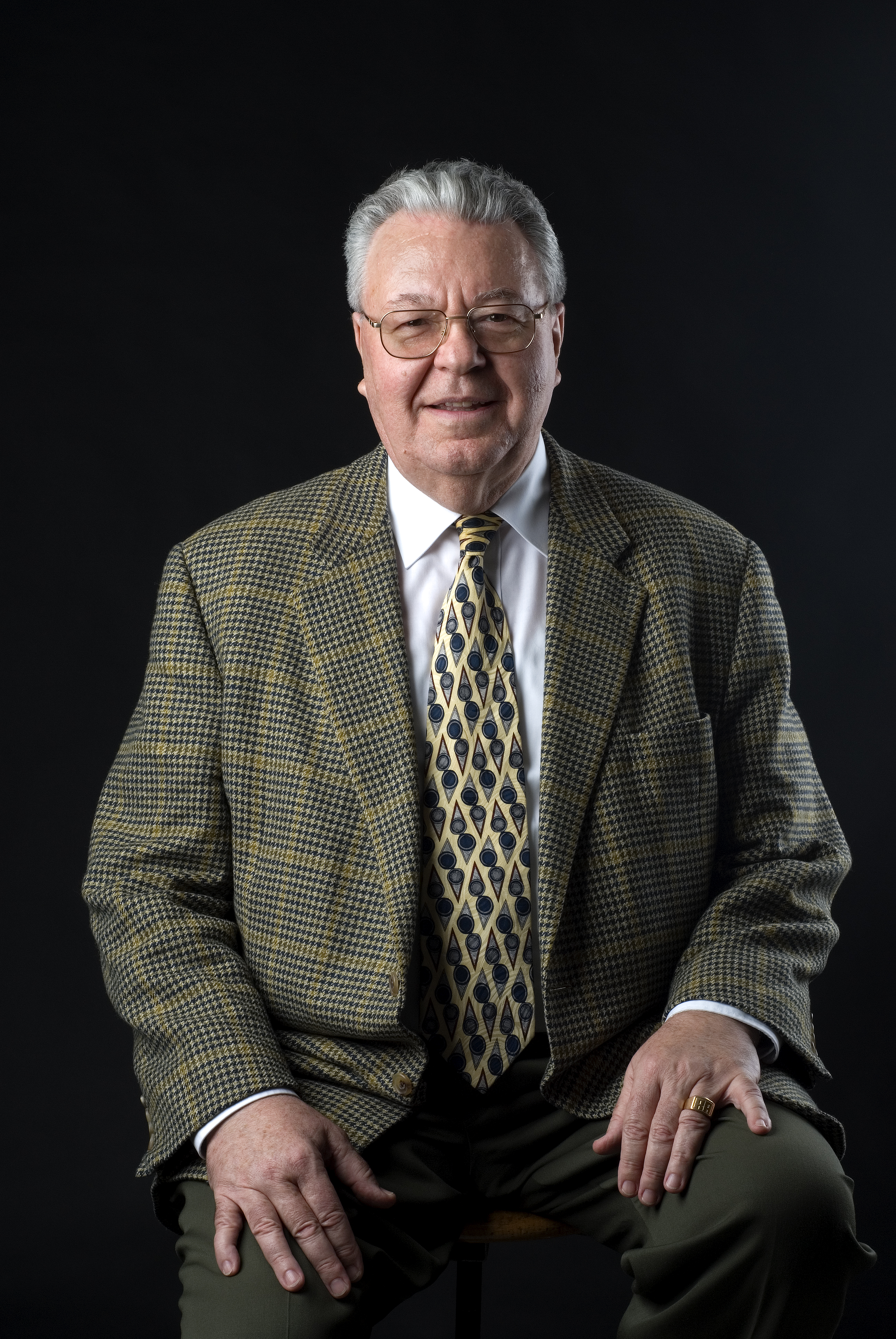 Photograph of Robert Aymar, fromer Director-General of CERN, taken 2006